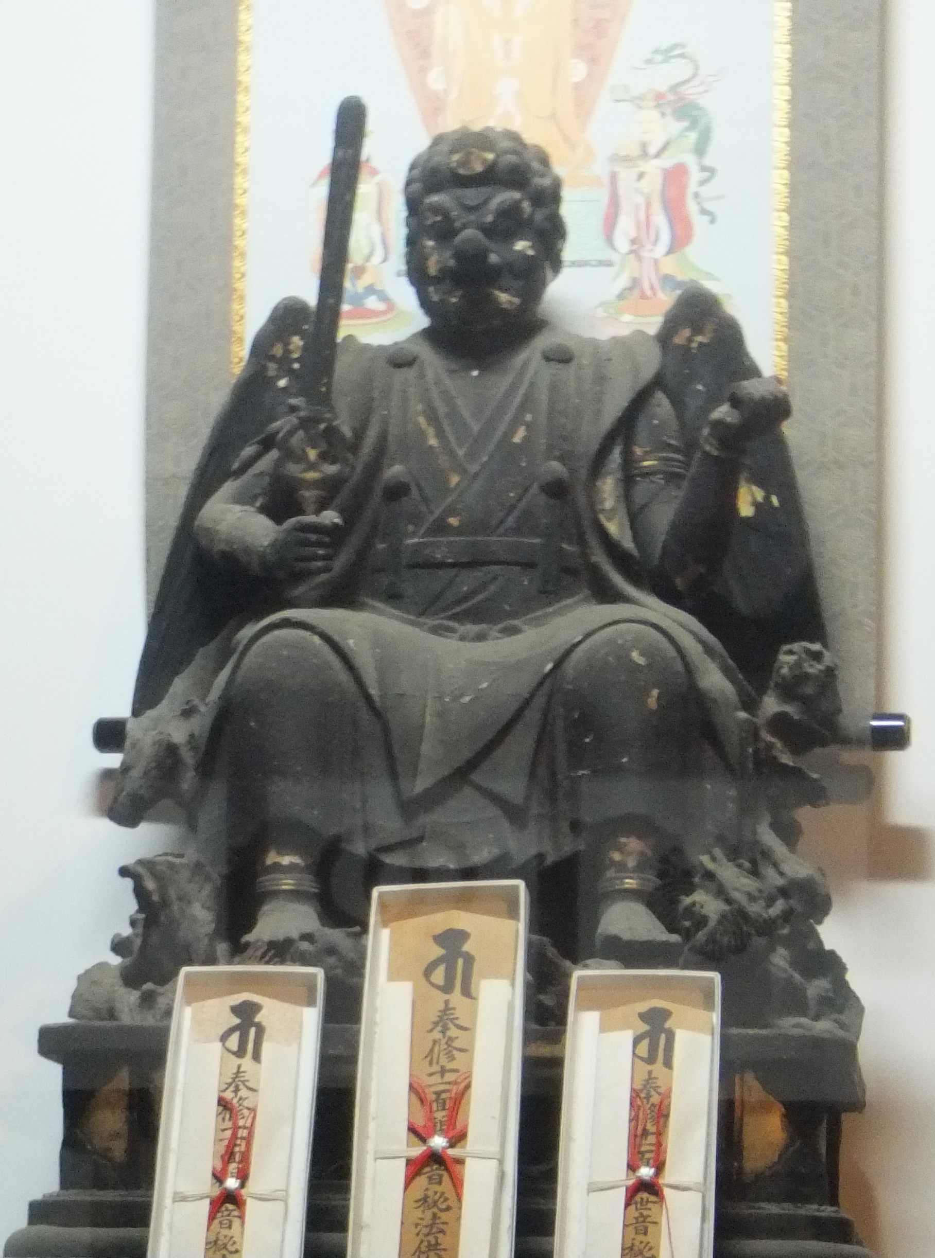 Wooden sculpture of the synchretistic deity Akiha Sanjakubō Daigongen near the portal of the Hase-Temple (Hasedera), Nara Prefecture, Japan.